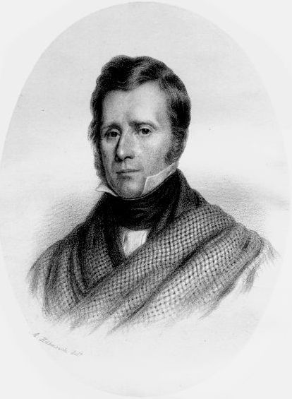 James Hogg - The Ettrick Shepherd. Lithographed from an original Portrait in the possession of his widow by Schenck & McFarlane, Edinburgh.